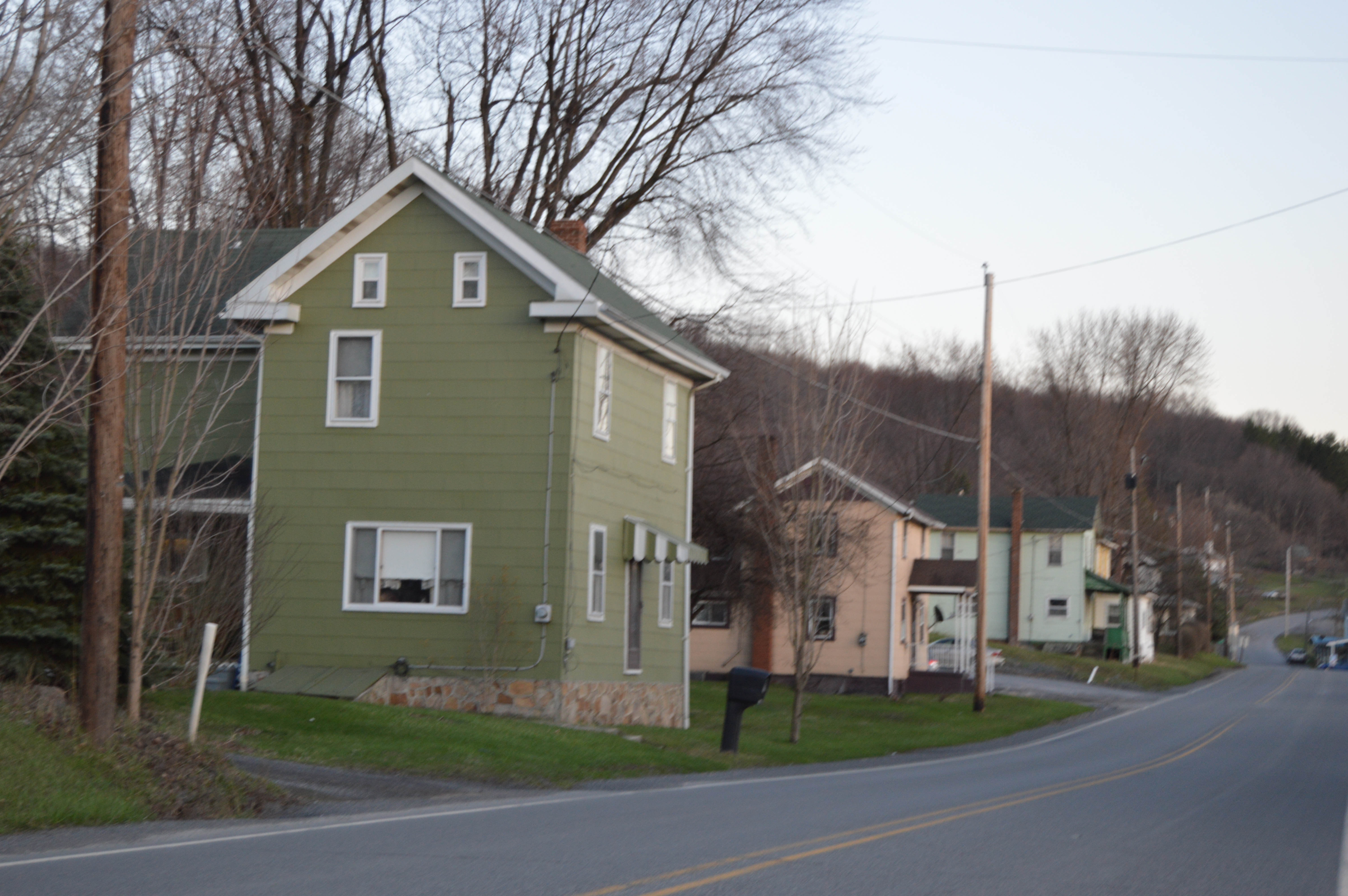 Houses along the western side of Pennsylvania Route 53 at Blain City in Beccaria Township, Clearfield County, Pennsylvania, United States.